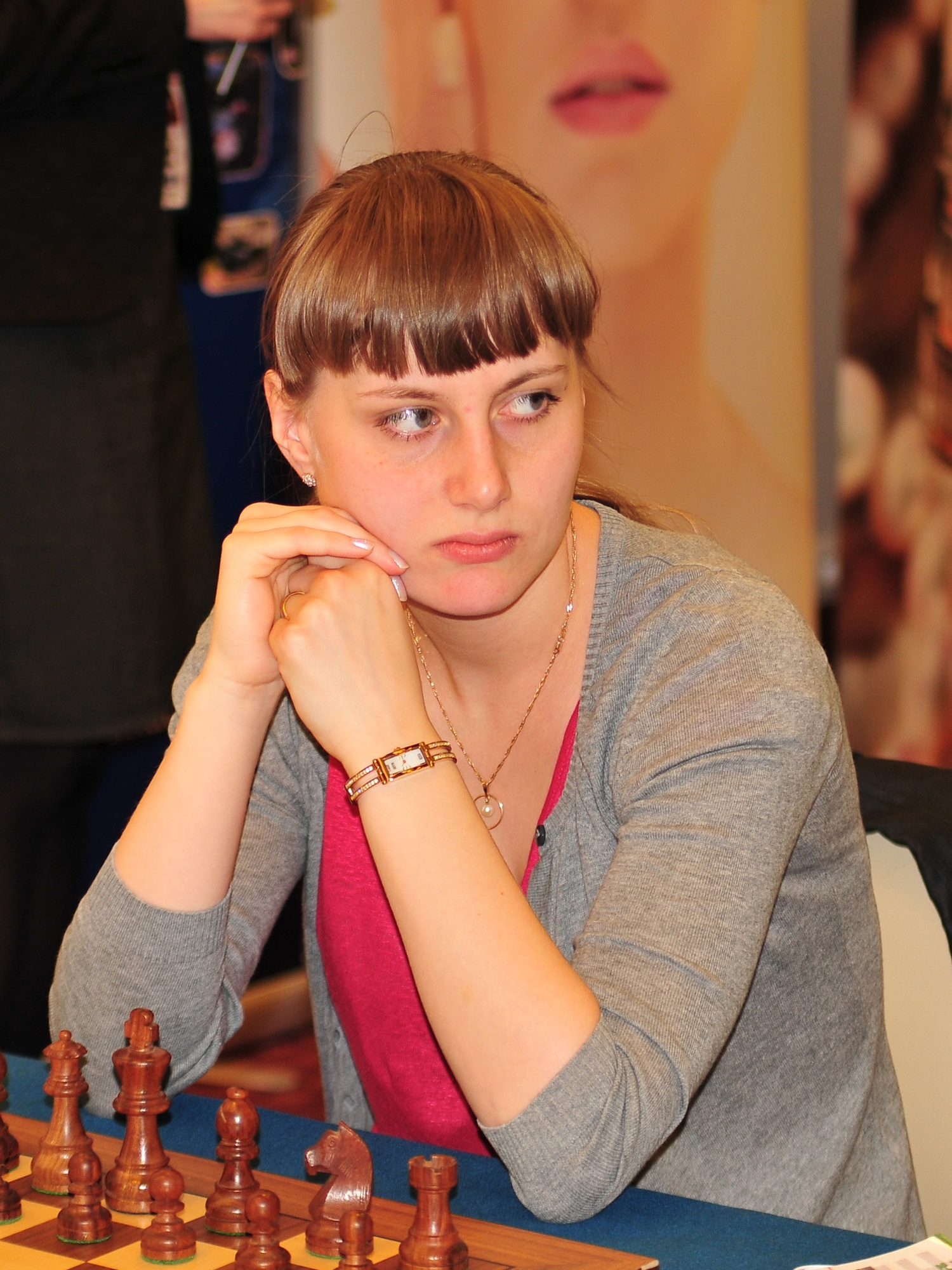 WGM Maria Kursova, European Chess Team Championship Warsaw 2013